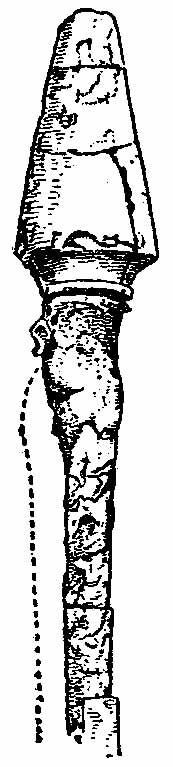 Drawing of the beak mouthpiece of an aulos (musical instrument of ancient Greece) found at Pompeii